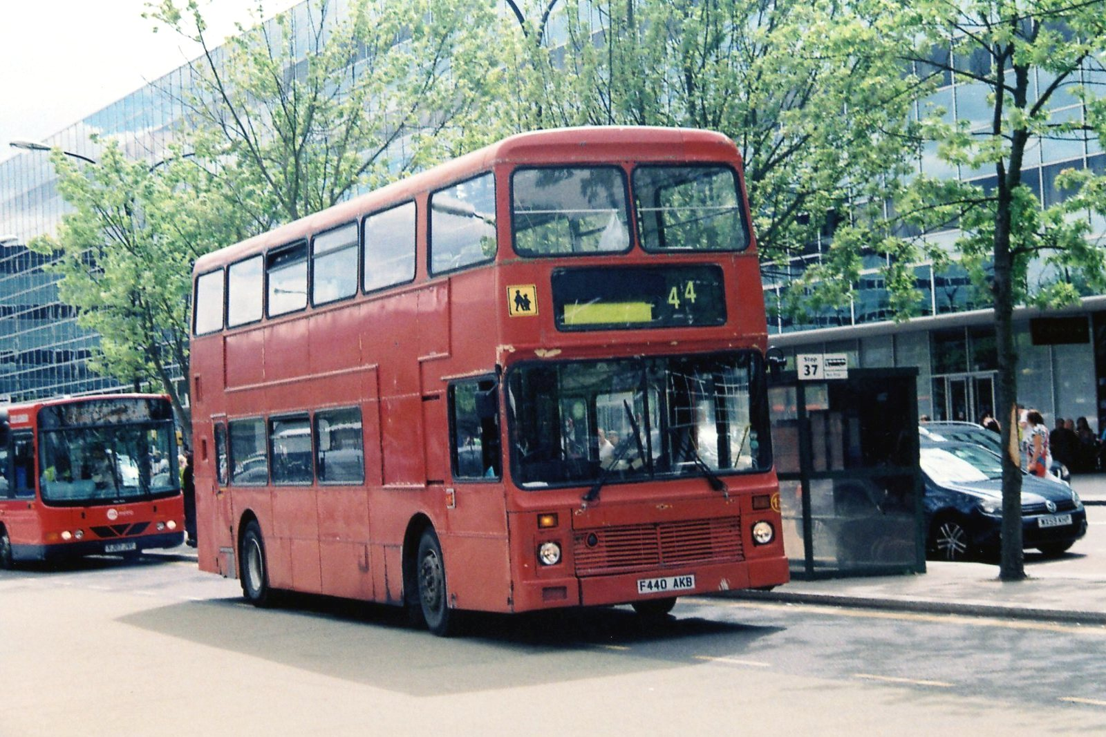 On a Mission bus at Milton Keynes Central railway station in July 2010 on route 44. The company ran one competing route from Wolverton to Bletchley and several tendered services. It closed down three weeks later. The bus is a Leyland Olympian with Northern Counties body, registration mark F440 AKB, still in the livery of former operator Cedar Coaches.